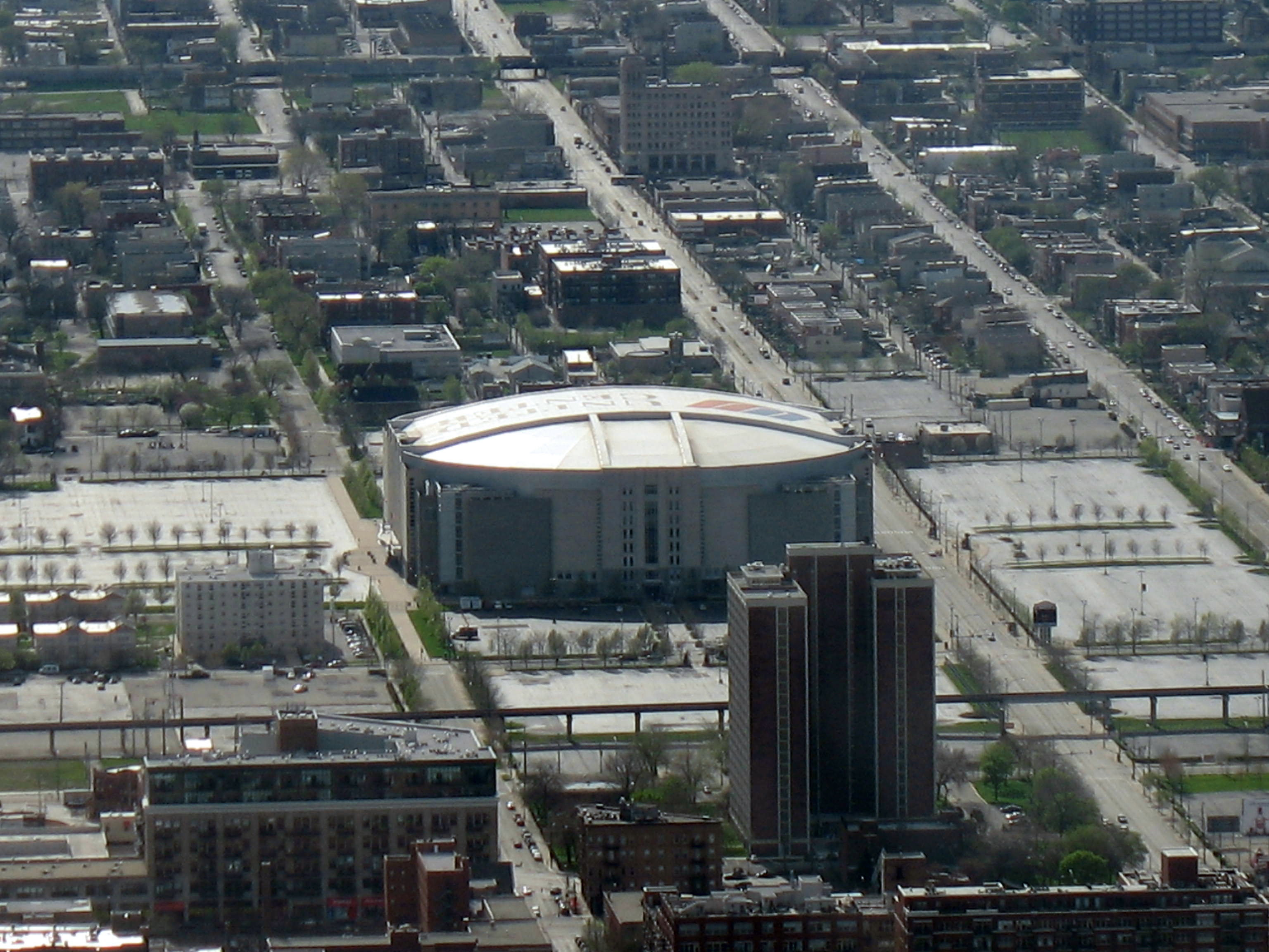 United Center, Chicago. Photographed from the observation deck of the Sears Tower